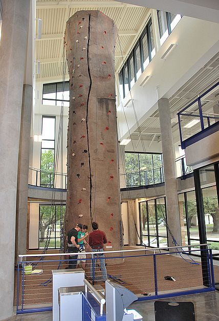 The Rock Climbing Gym at Angelo State Universities Center for Human Performance